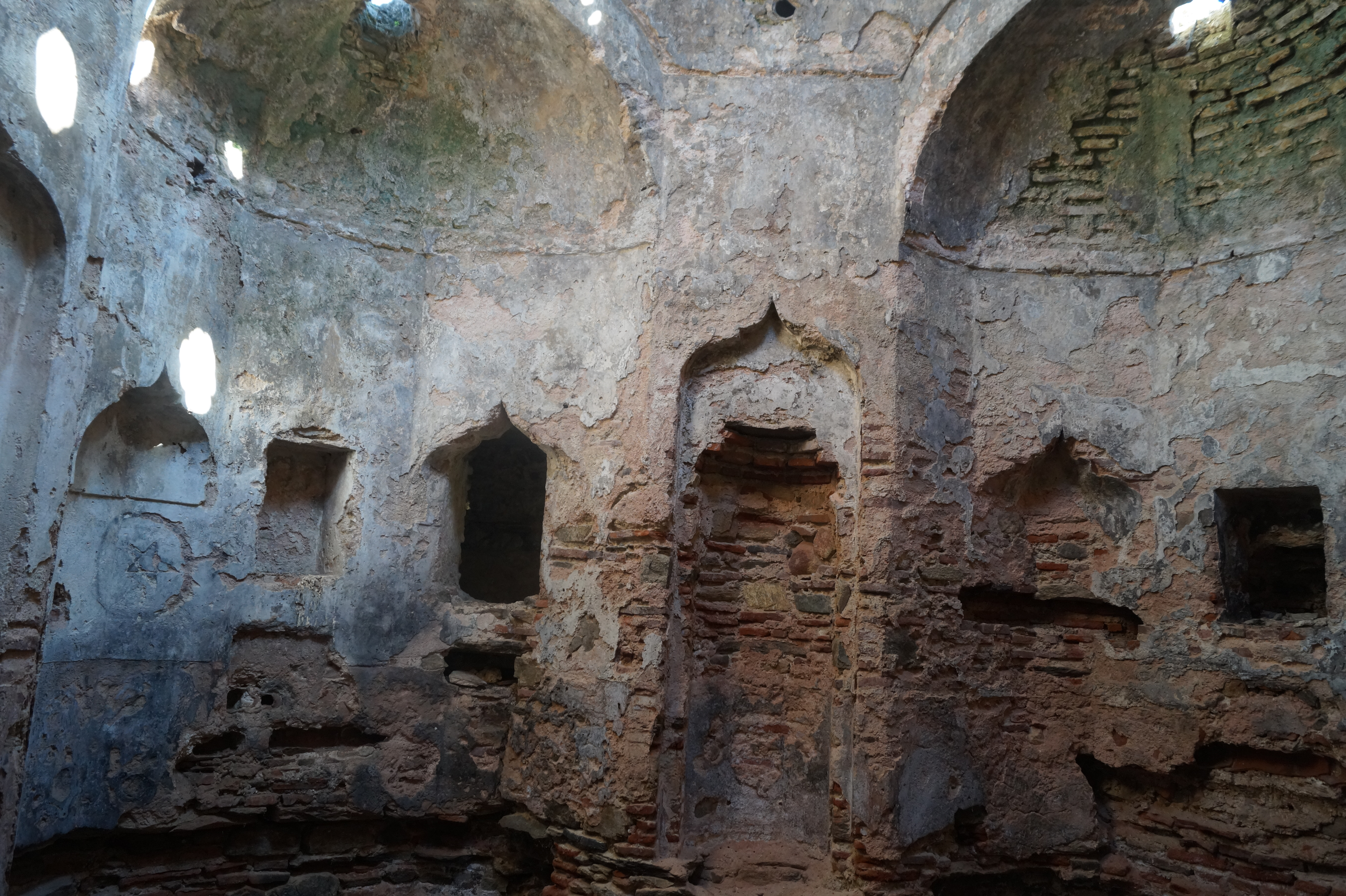 Apollonia, Makedonia, Greece: Inside of ottoman bath (16th century)